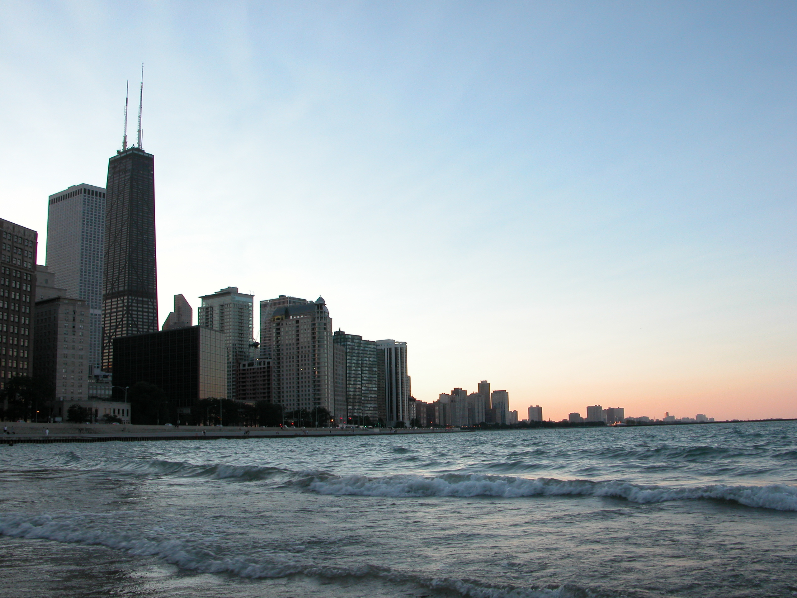 Chicago skyline viewed from Olive Park Beach.